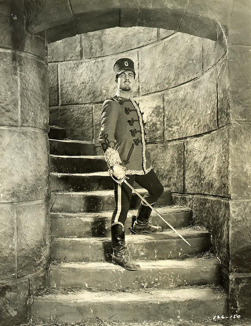 Ramon Novarro in The Prisoner of Zenda (1922) - publicity still